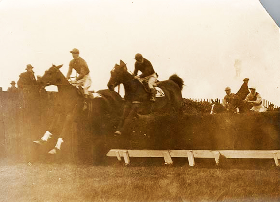 This shot was taken at the Steeplechase for the Metropolitan Plate at Baldoyle Racecourse. Apologies for poor photographic quality of this one, but thought it was good as an early action shot… The Metropolitan Plate carried a purse of 500 sovereigns; second won 70 sovereigns and third won 25. It was a handicap steeplechase over 2½ miles, and the race started at 3.35 p.m. Can anyone help with where this racecourse used to be, so that I can add it to our Flickr map? Date: Friday, 16 March 1923 NLI Ref.: HOG205